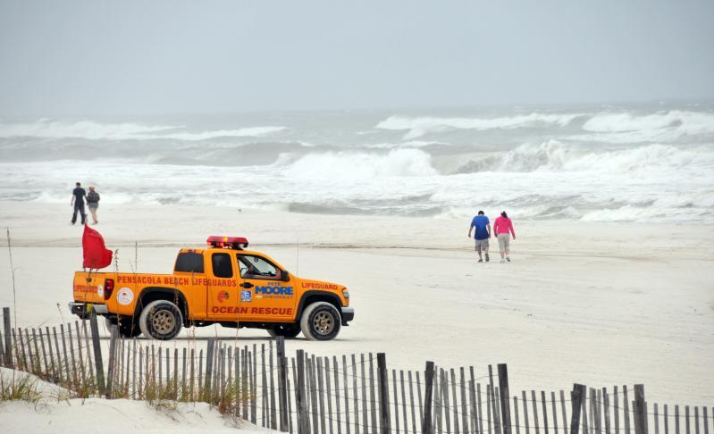 Early morning conditions on Monday, November 9th, 2009. Photos taken on Pensacola Beach. These conditions may not look extreme for Atlantic or Pacific Beaches, but this is bad for the Gulf of Mexico.